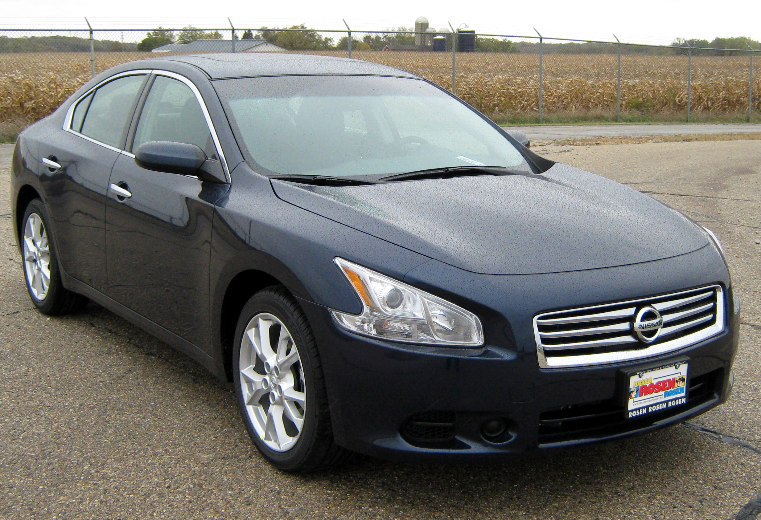 2012 Nissan Maxima photographed in USA.